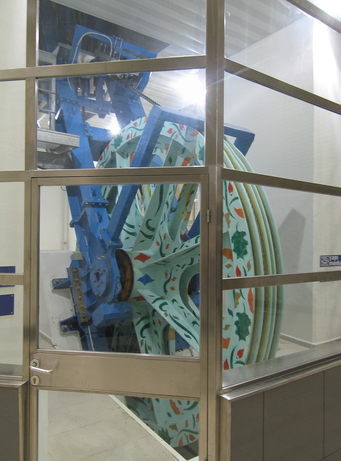 Cable wheel of the Istanbul funicular "Füniküler Kabataş-Taksim" at Taksim station